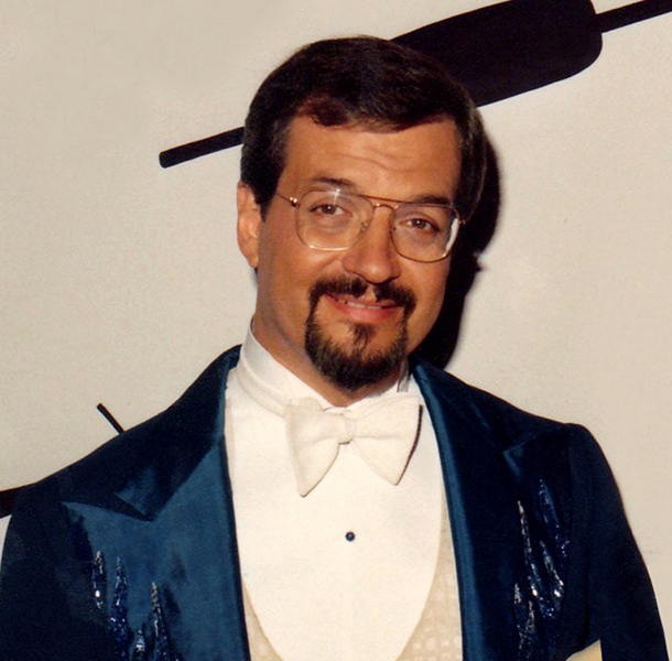 Harry Blackstone, Jr. at TPC Communications, Pittsburgh, Pennsylvania, USA, June 4, 1981. Photo by Jerry Interval. Uploaded by photographer's son, the copyright holder (Houdinimuseum)